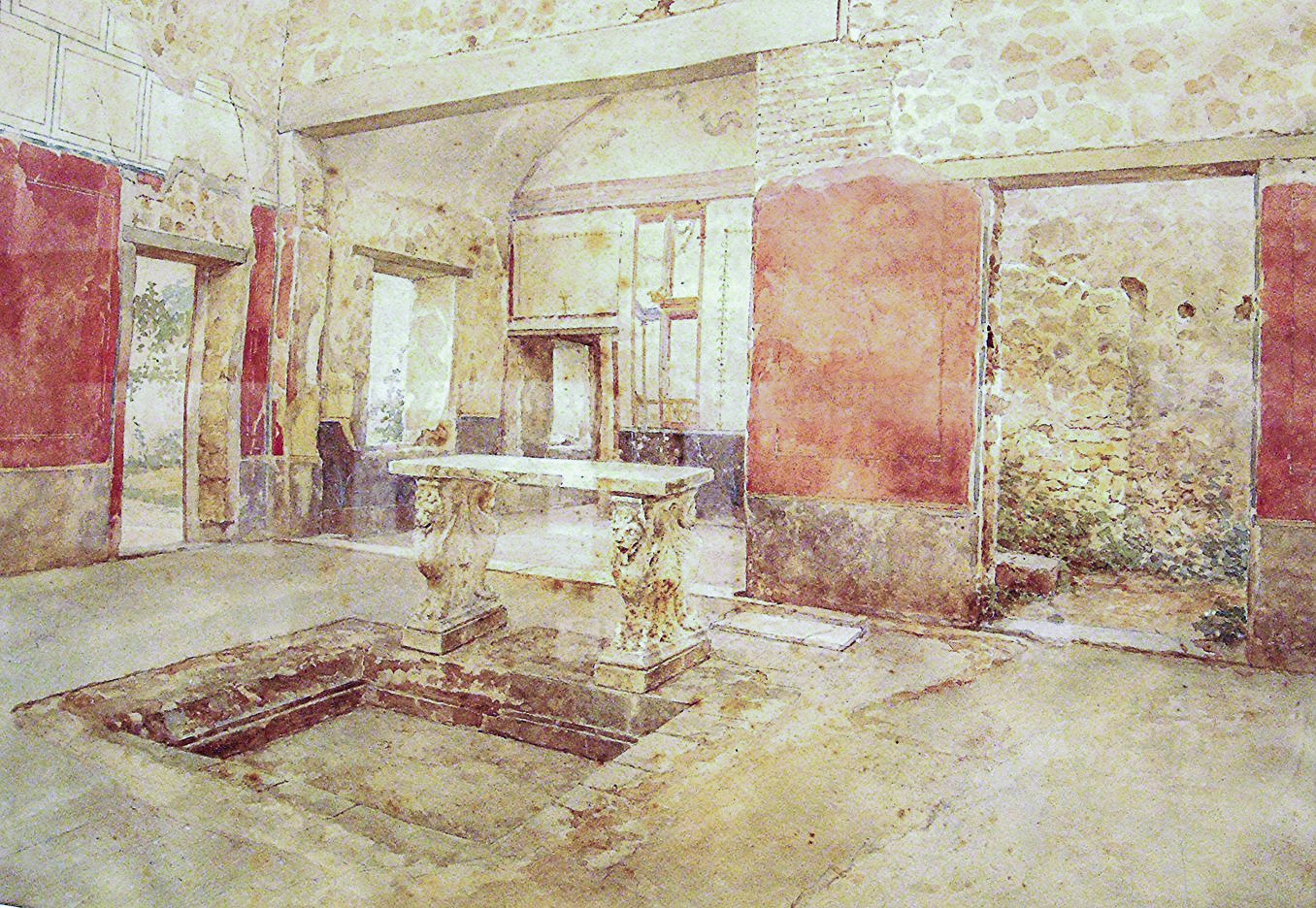 Atrium of the House of the Prince of Naples in Pompeii watercolor by Luigi Bazzani.